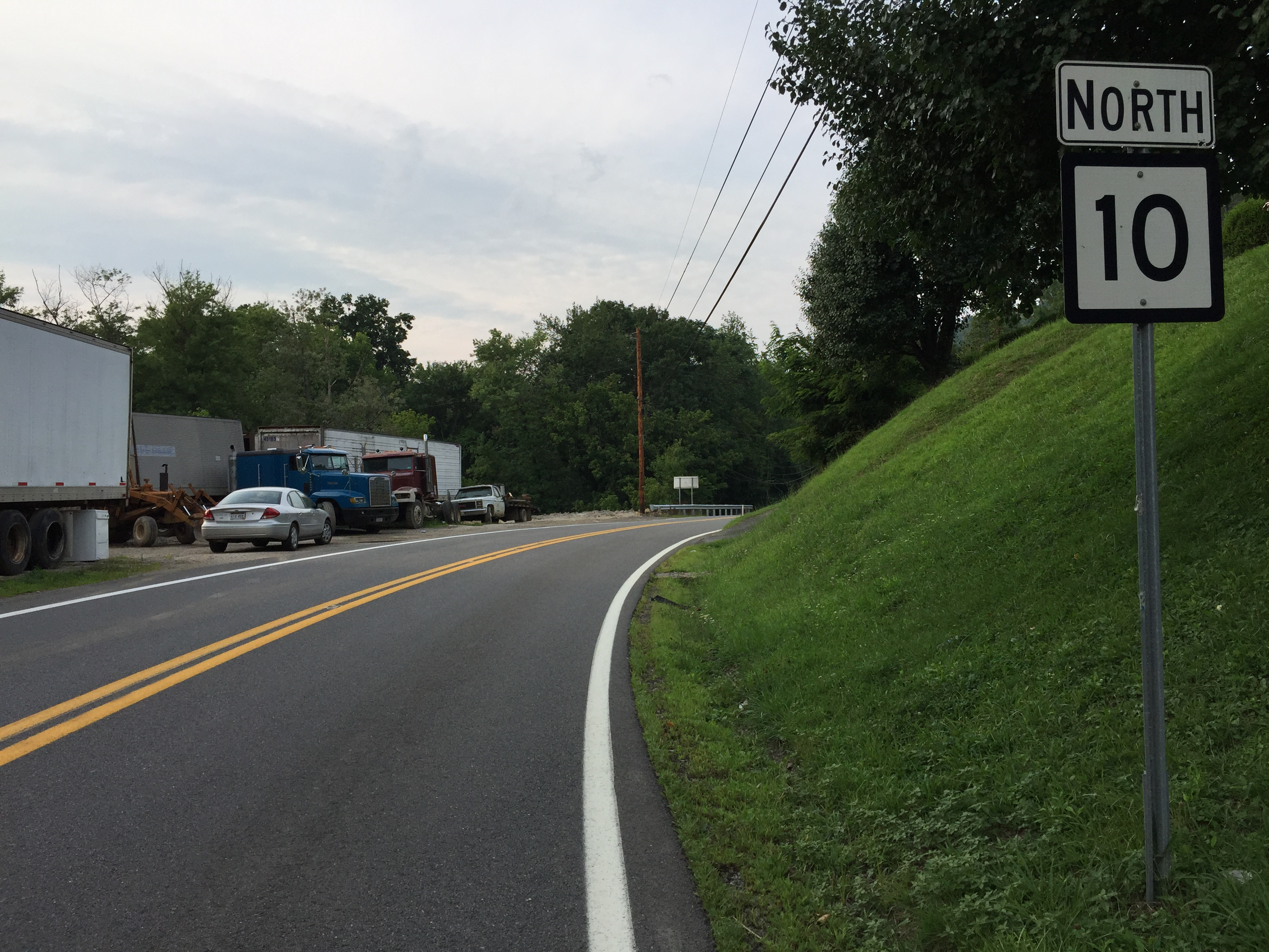 View north along West Virginia State Route 10 (McClellan Highway) at West Virginia State Route 3 (Straight Fork Road) in West Hamlin, Lincoln County, West Virginia